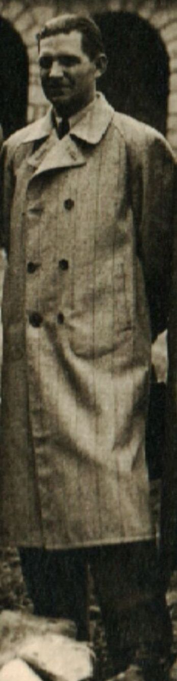 Asen Kaloyanov, Georgi Veselinov, Zmey Goryanin, Lyubomir Doychev, Grigor Ugarov and Slavcho Angelov in Samokov.